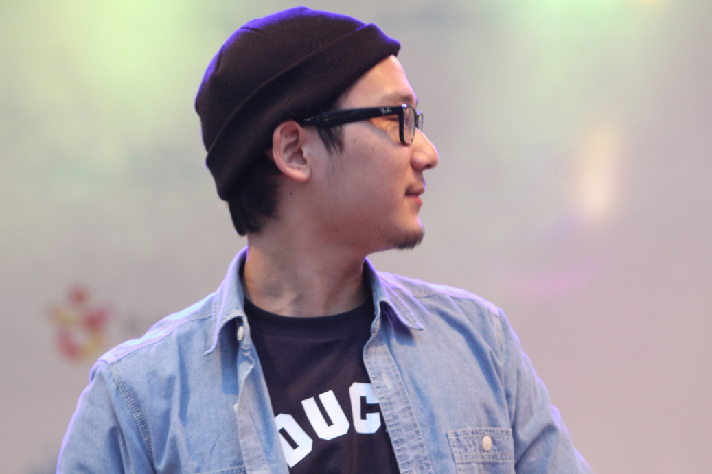 Shimmy Twice performing at the Hip Hop Guerilla Concert for the Global Etiquette Campaign in Hongdae on June 18, 2011.